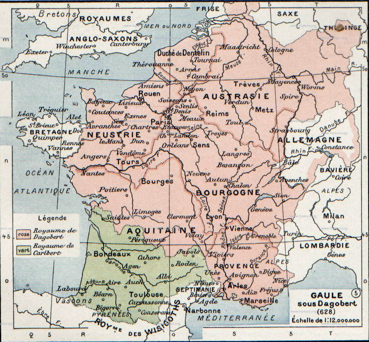 The map comes from Vidal-Lablache, Atlas général d'histoire et de géographie (1894). It shows the Frankish kingdoms in 628 AD.